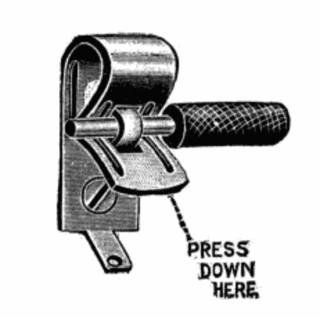 Drawing of a Fahnestock clip from a 1912 scientific equipment catalog. The Fahnestock clip was an early electrical breadboarding connector invented in 1907. It is designed to grip a bare or stripped electric wire securely, yet release it with the when the tab is pushed, as shown.